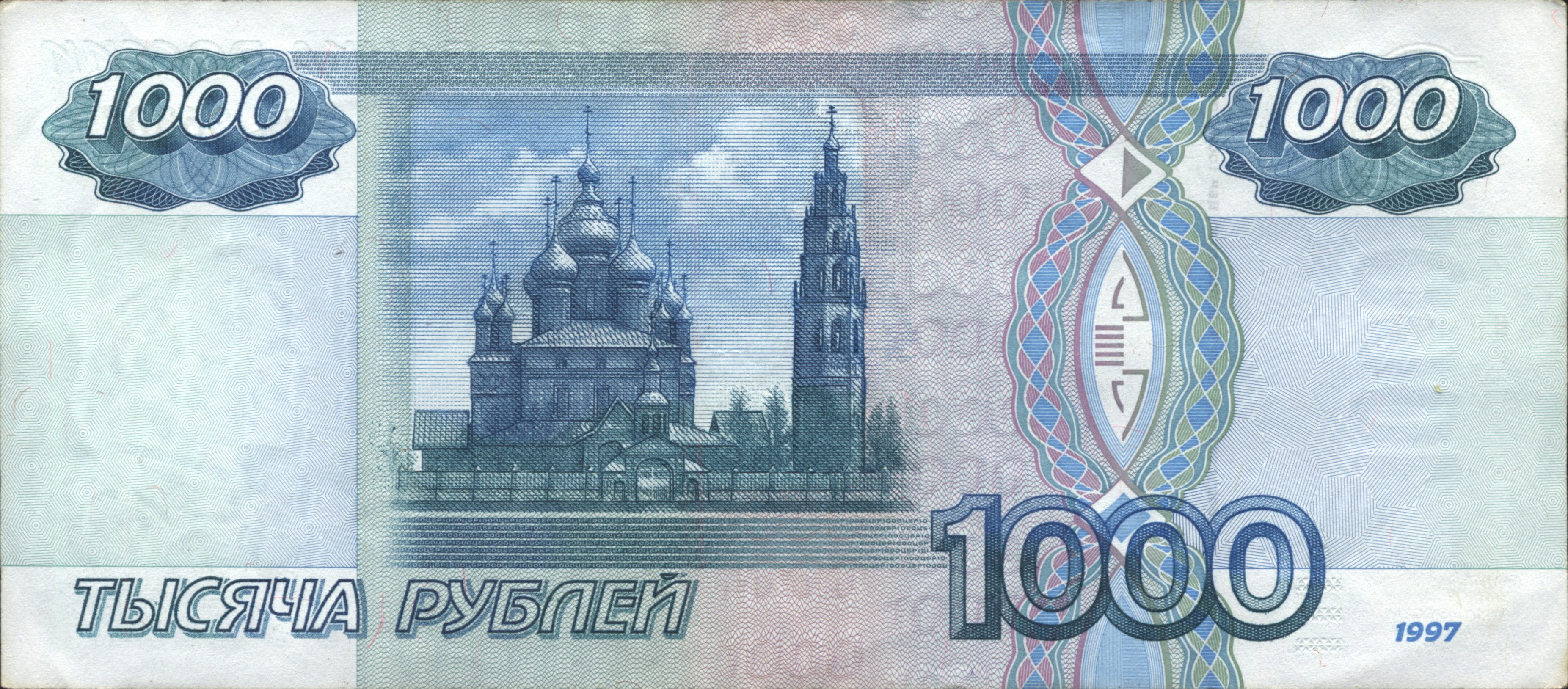 Russian banknote. 1000 rubles. Version of 1997 (2001) year. Back